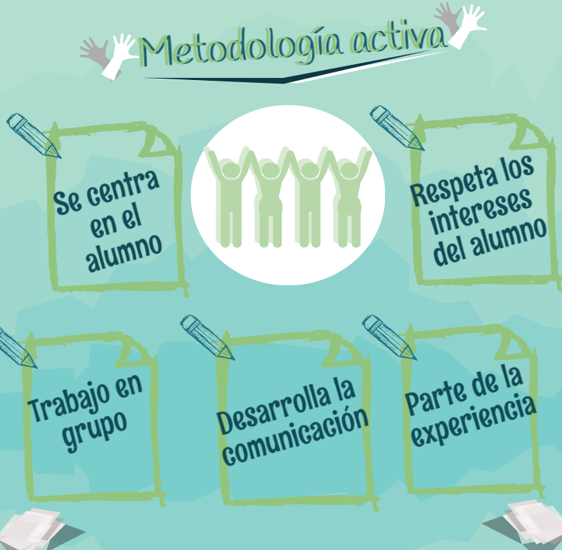 Características